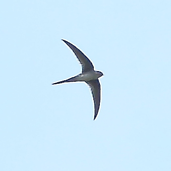 Fork-tailed Palm-Swift at Apiacás - MT - Brazil